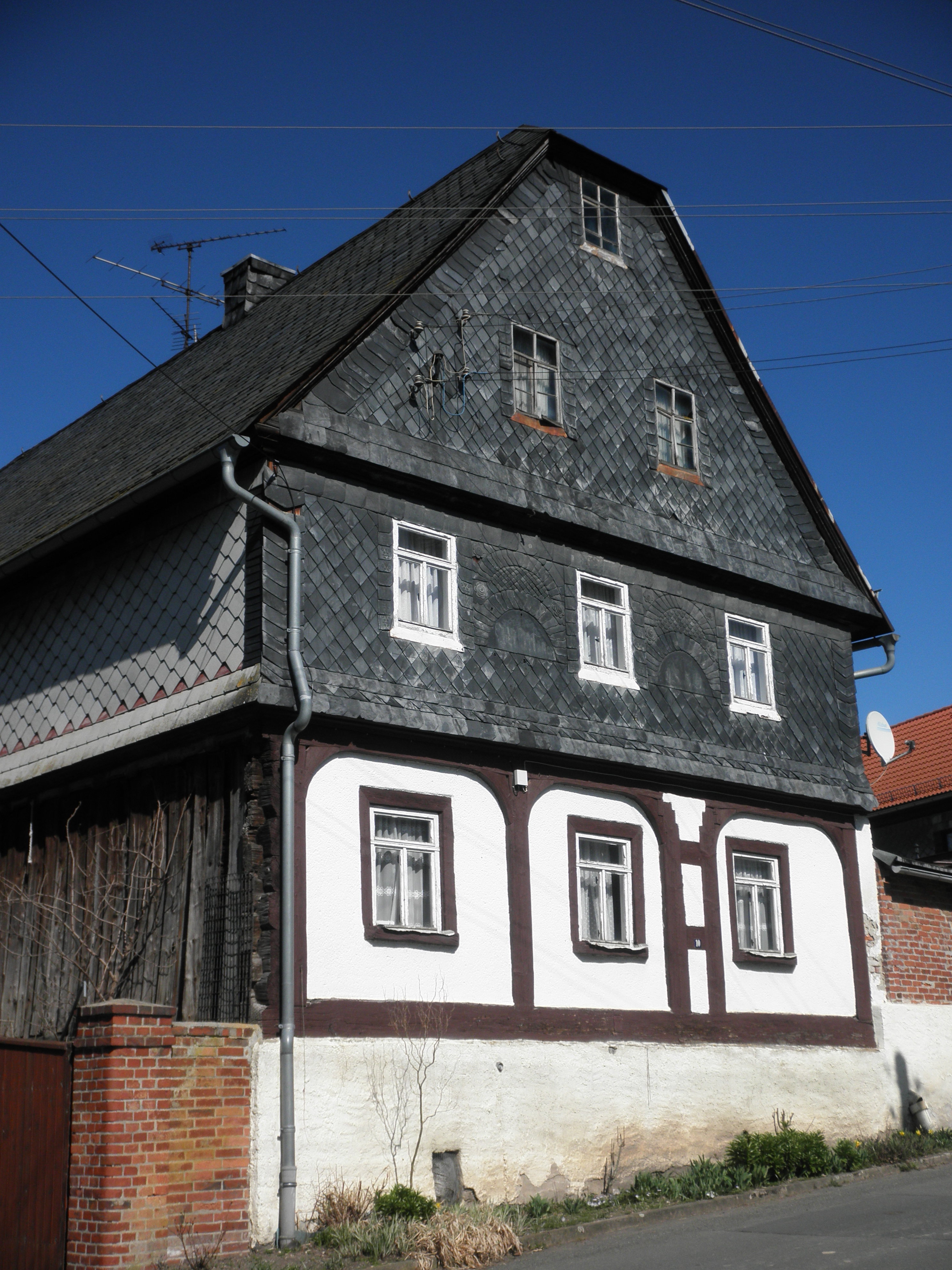 House in Laskau in Thuringia